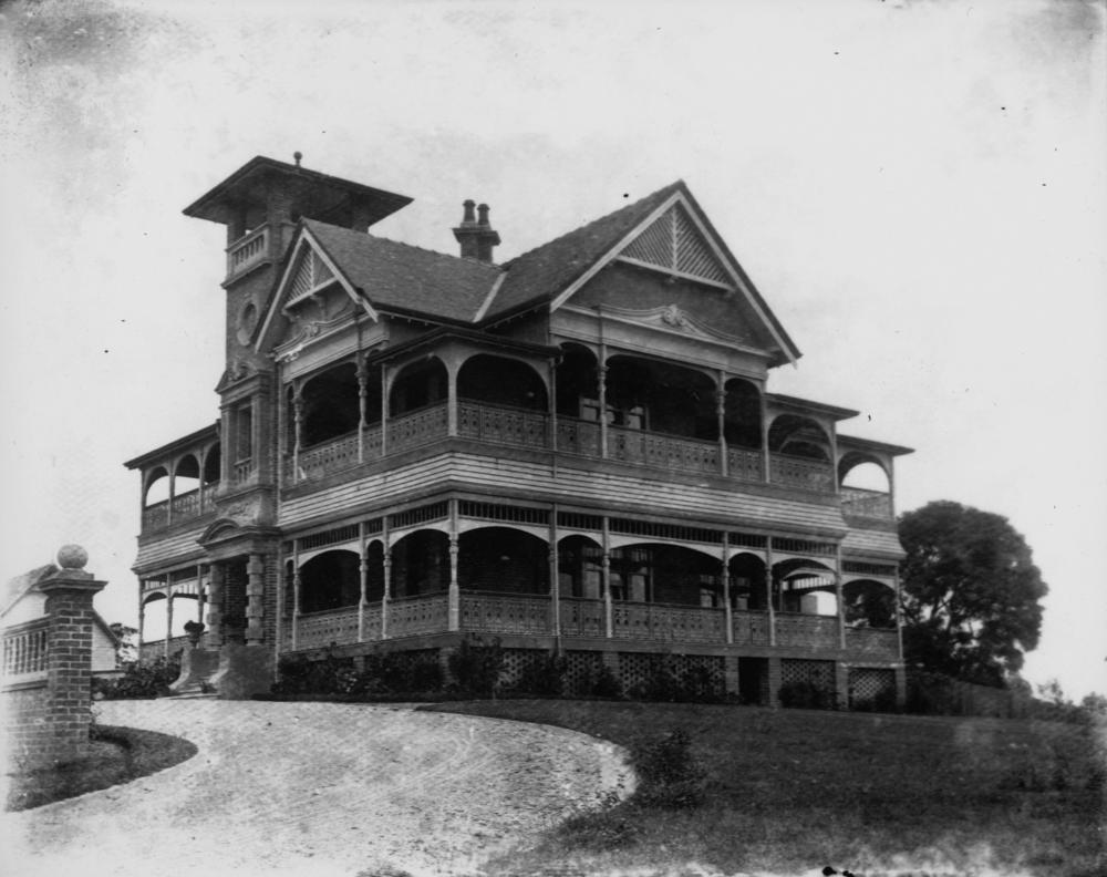 Home, also known as Lamb House, Kangaroo Point, Brisbane, ca. 1904 Home, erected ca. 1902, is a rare surviving example of a grand, intact Federation period residence in Brisbane. Home was designed by Brisbane architect Alexander Brown Wilson and built by W. Anthony . The residence is situated high above the Brisbane River at 9 Leopard Street, Kangaroo Point, giving magnificent views of the Brisbane River and central business district. Home was built for John Lamb, co-proprietor of the Queen Street drapery establishment of Edwards & Lamb. Home is also known as Lamb House.